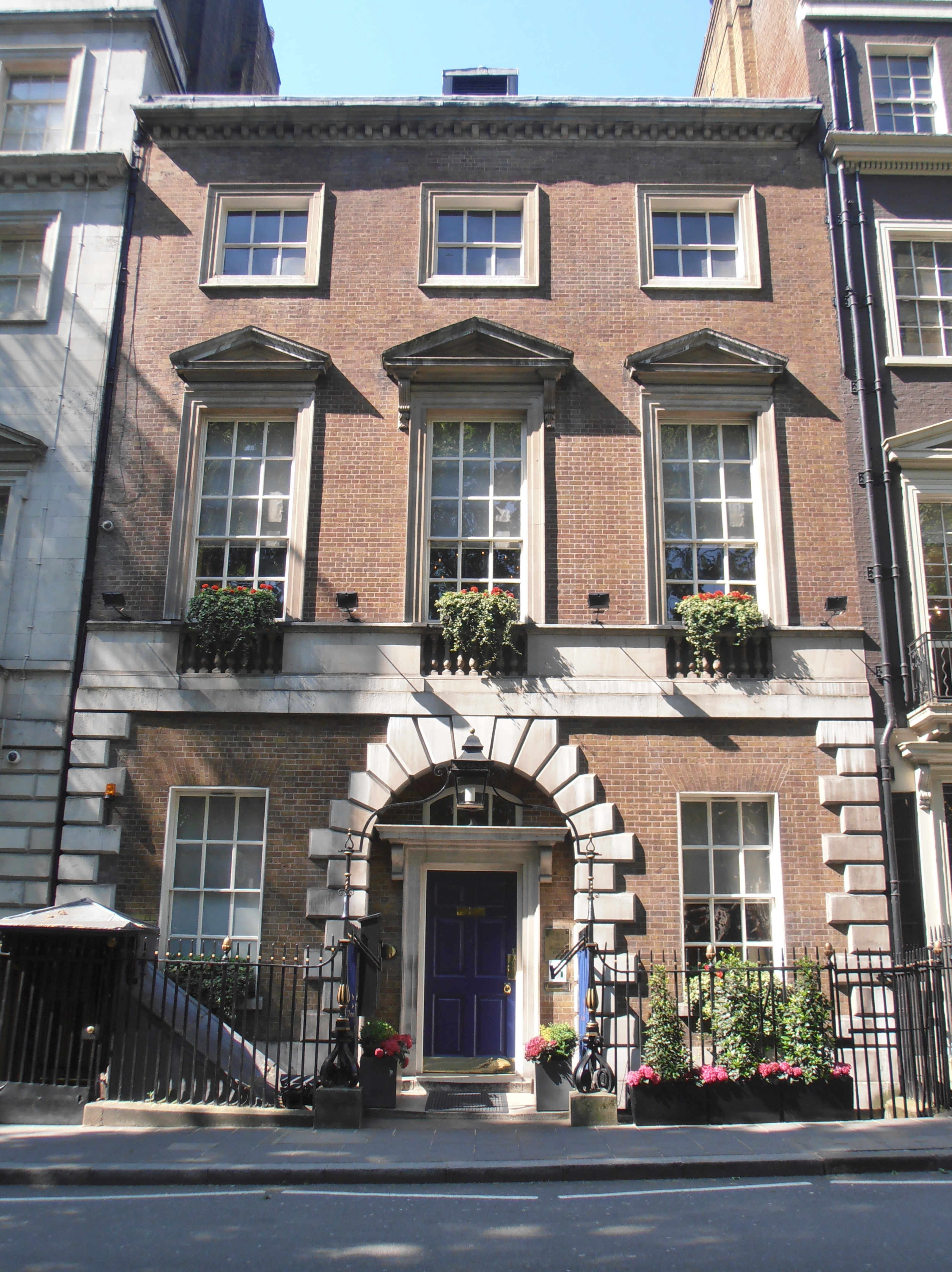 44, BERKELEY SQUARE W1 Wikidata has entry Q4767666 with data related to this building.